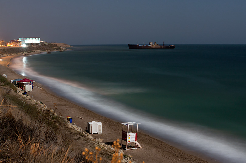 French's beach, in Costineşti, Romania, with the wreck of the cargo ship E Evangelia in the background